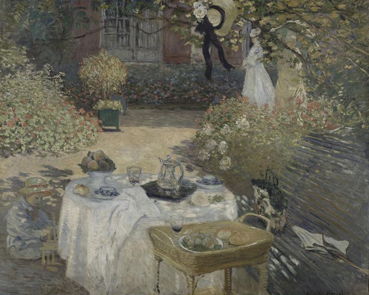 Claude Monet, Le_déjeuner: panneau_décoratif at Musée d'Orsay